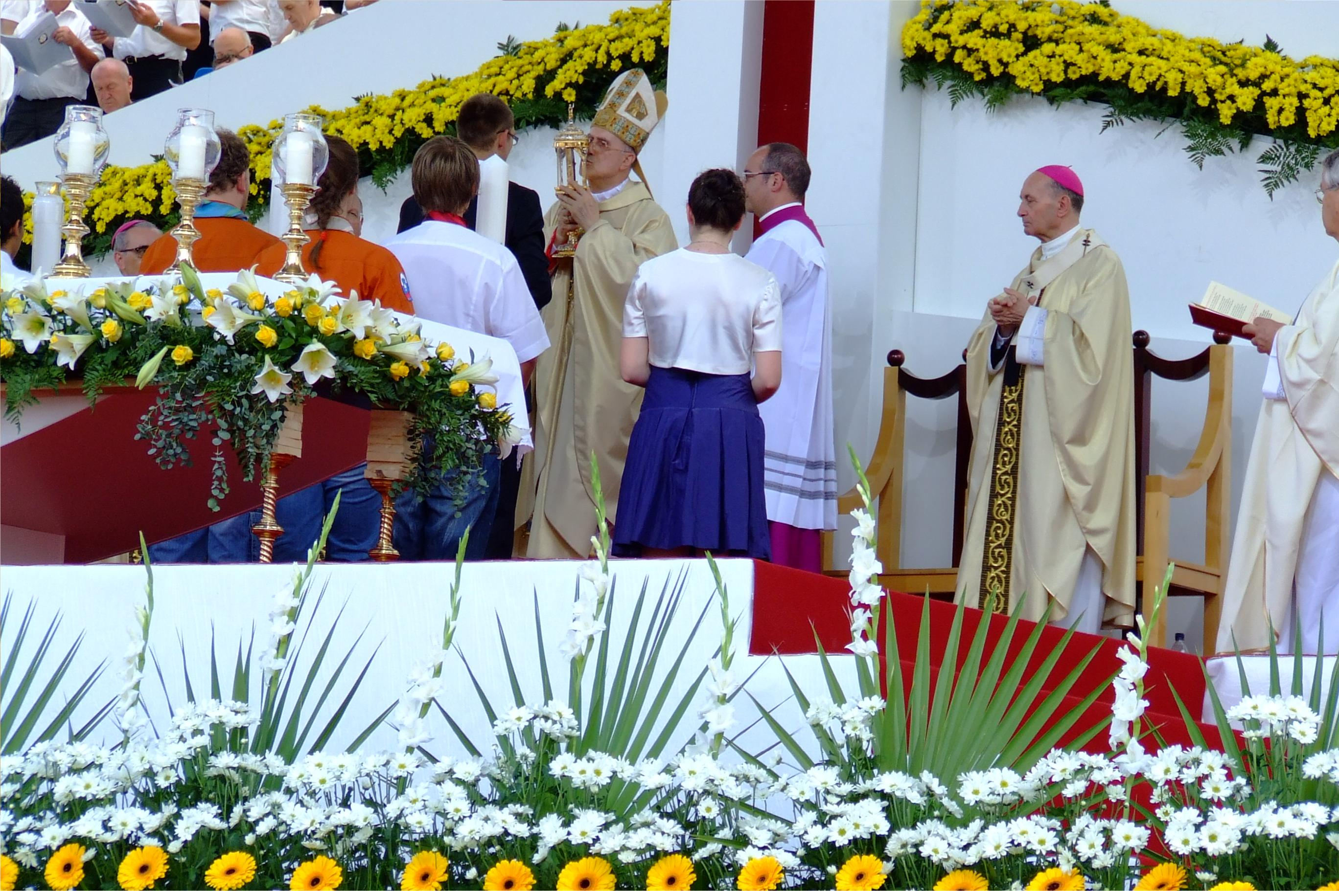 Vid Gajšek's documentary fineart digital photograph shows »Slovenian Eucharistic Congress 2010 on Sunday, 13th June 2010«, a special day of history of Slovene Catholic Church with proclamation of Blessed Aloysius Grozde (became first Slovene martyr for holy faith), happened within Eucharistic celebration in the holy faith in Jesus Christ, present in the Corpus holy body and blood.